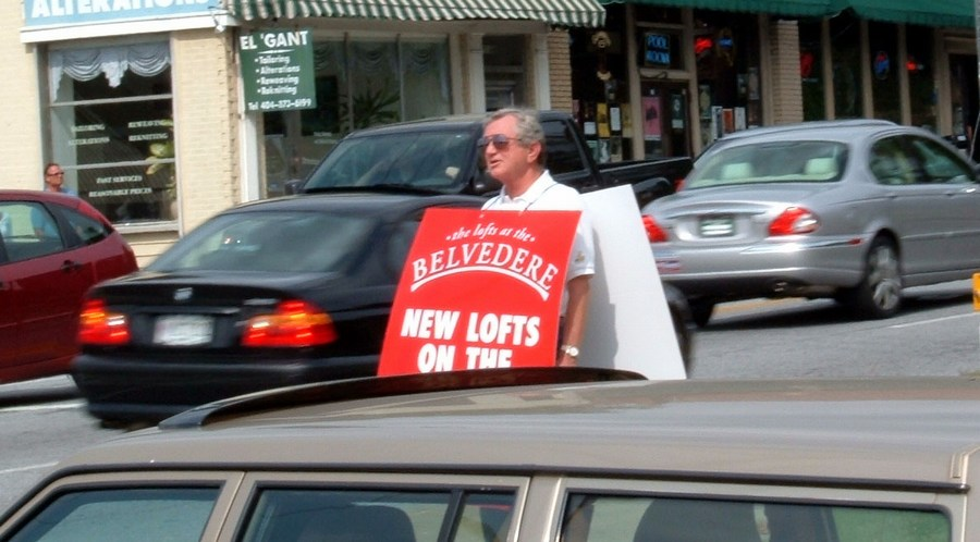 Human billboard in Atlanta, GA, USA